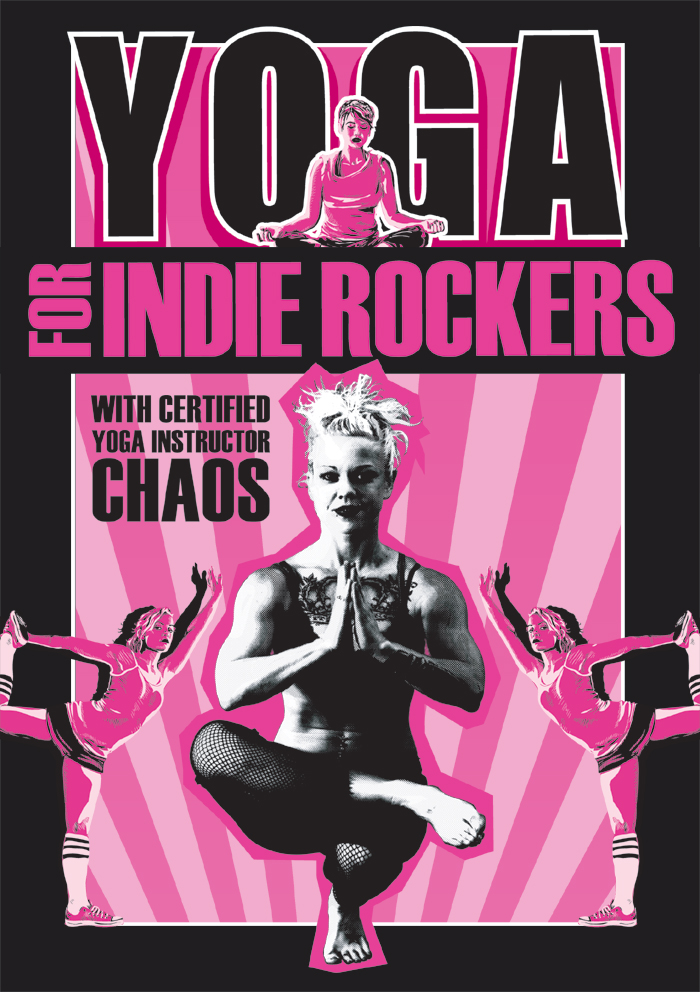 Yoga For Indie Rockers video cover art